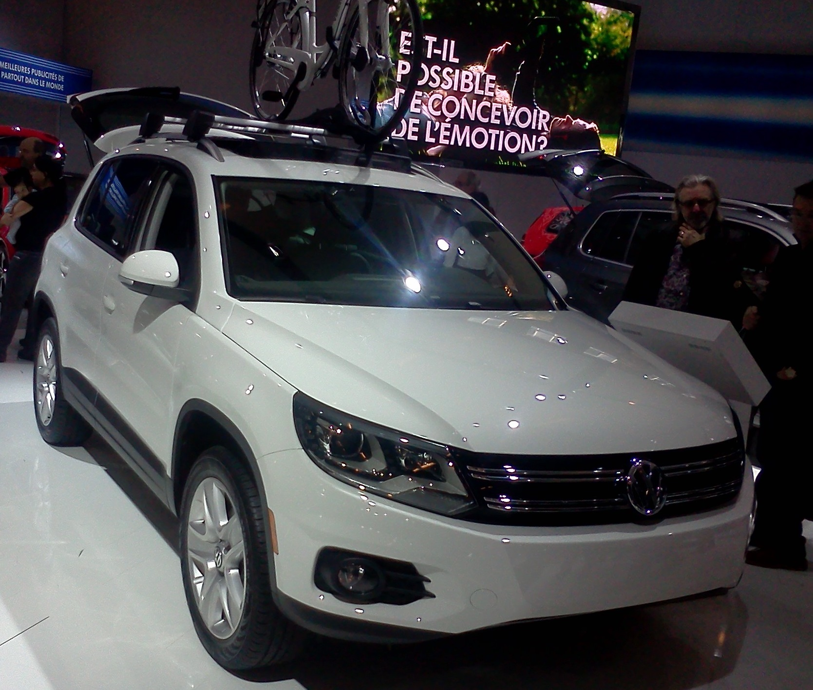 2014 Volkswagen Tiugan photographed in Montreal, Quebec, Canada at the 2014 Montreal International Auto Show.